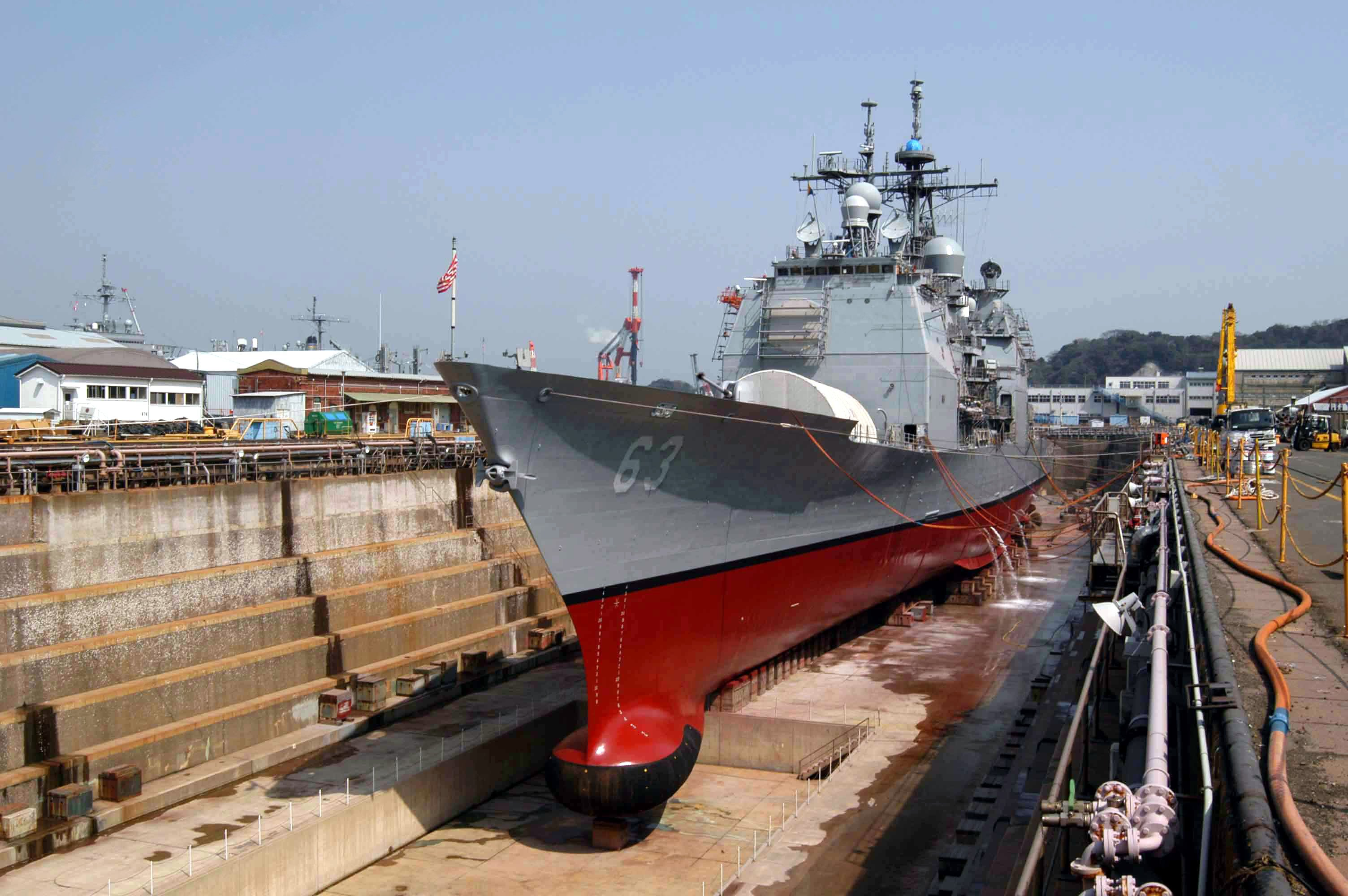 A port bow view of the US Navy (USN) TICONDEROGA CLASS: Guided Missile Cruiser (Aegis), USS COWPENS (CG 63), as the ship rest inside the dry dock, at Yokosuka, Japan, after completing the nine-week selected restricted availability on the Ships Repair Force (SRF) dry dock period.